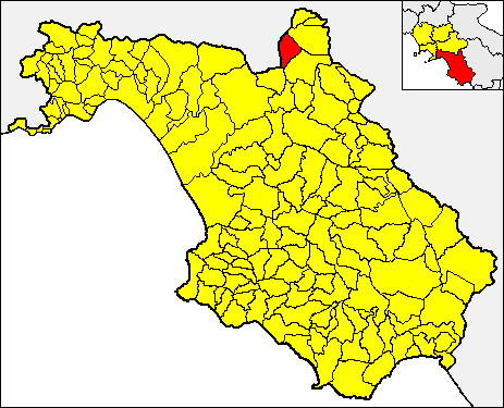 Locator map of the municipality of Valva (red) within the Province of Salerno